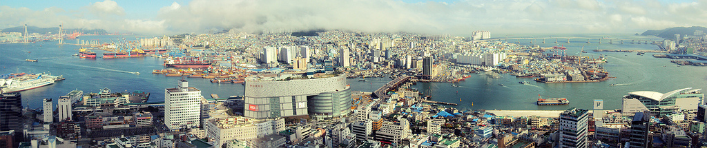 Busan from Busan Tower. Photograph from Flickr; author Lubo Zviera Ryba; license of cc-by-2.0.